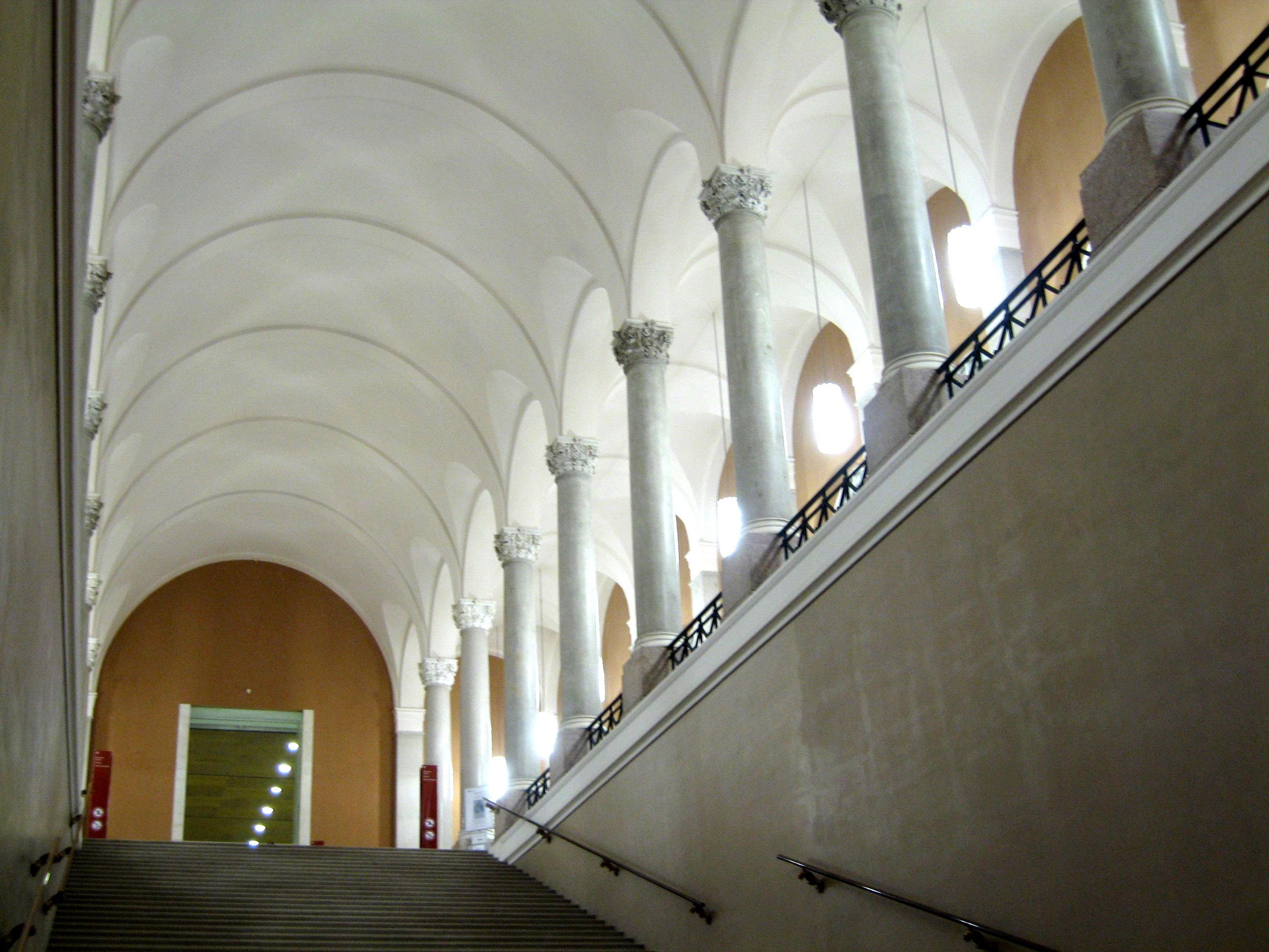 Central Stairway of the Bavarian State Library in Munich, Bavaria.